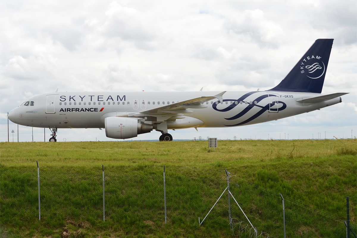 Air France, F-GKXS, Airbus A320-214